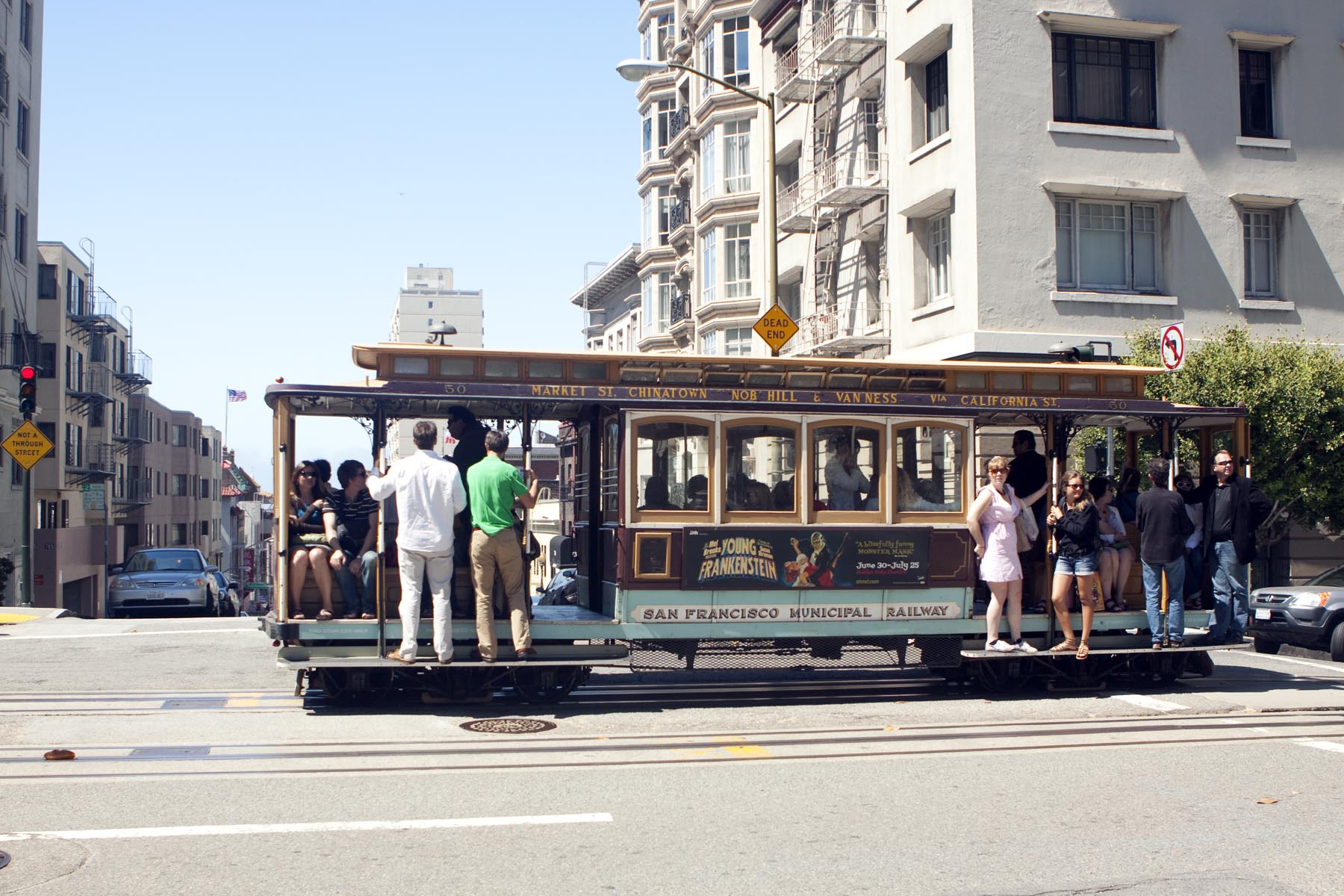 San Francisco Cable Cars